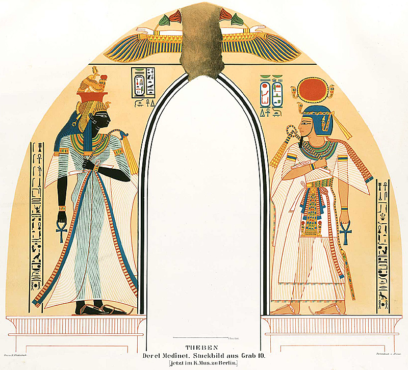 Amenophis I. and his mother Ahmosi-Nefertiri, TT 359, Deir el-Medina, Luxor West Bank, Egypt